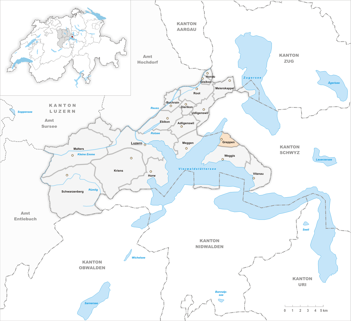 Municipality Greppen